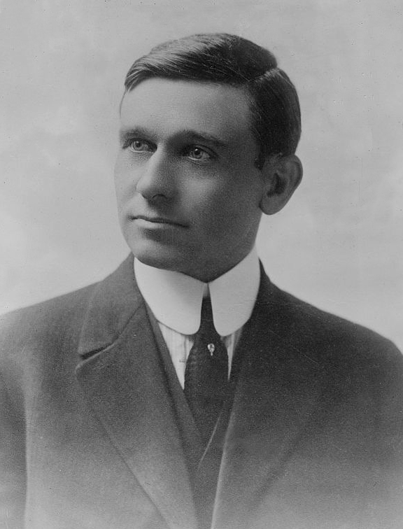 Dow H. Drukker, Republican representative from New Jersey, head-and-shoulders portrait, facing left